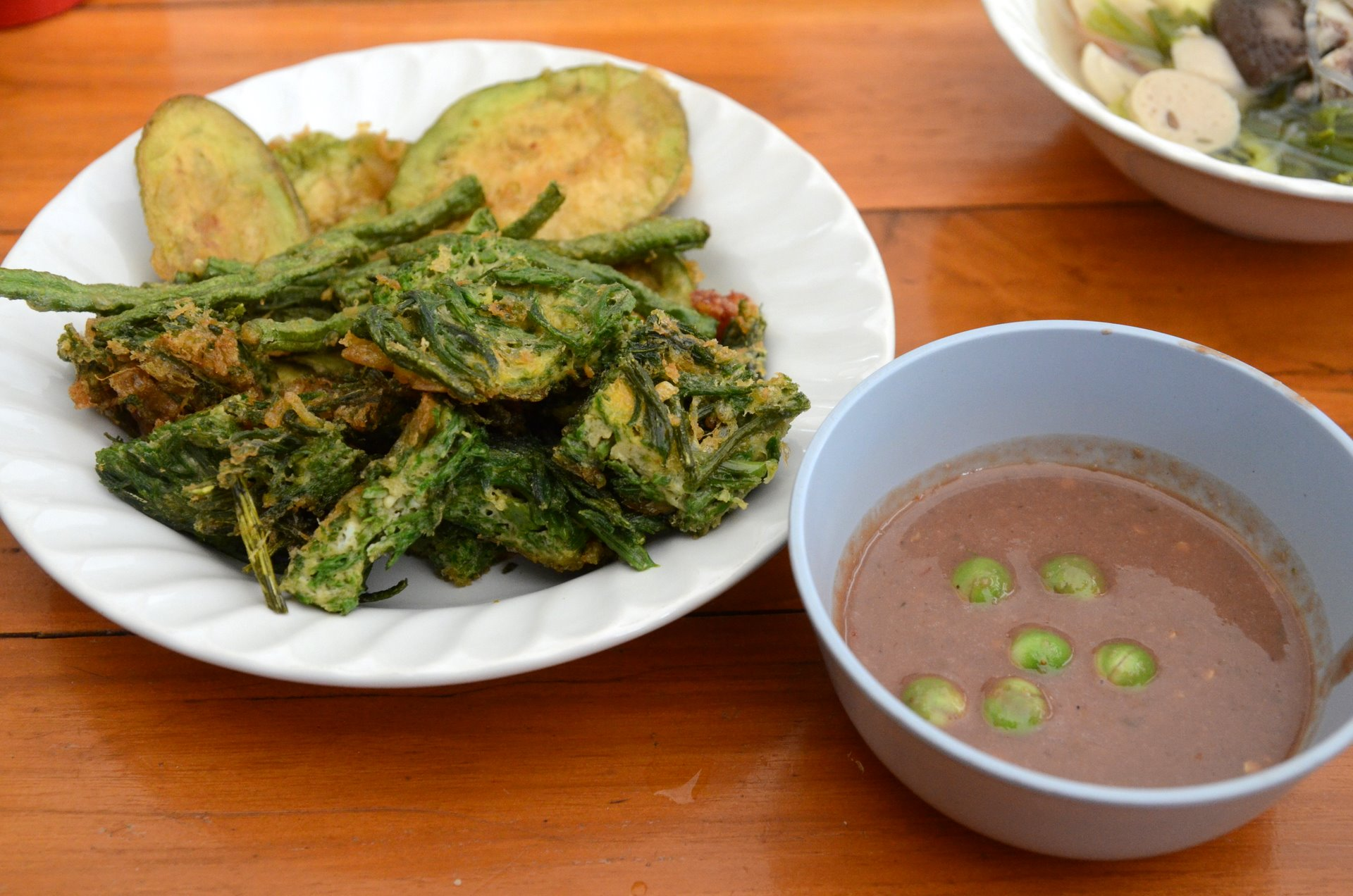 Nam phrik kapi (Thai script: น้ำพริกกะปิ): A dipping sauce made with shrimp paste, dried shrimp, garlic, bird's eye chillies, fish sauce, sugar and lime juice, and often also wild eggplant (the pea sized green aubergine). Here it is served with fritters of deep-fried cha-om (acacia leaves), string beans and slices of purple eggplant.